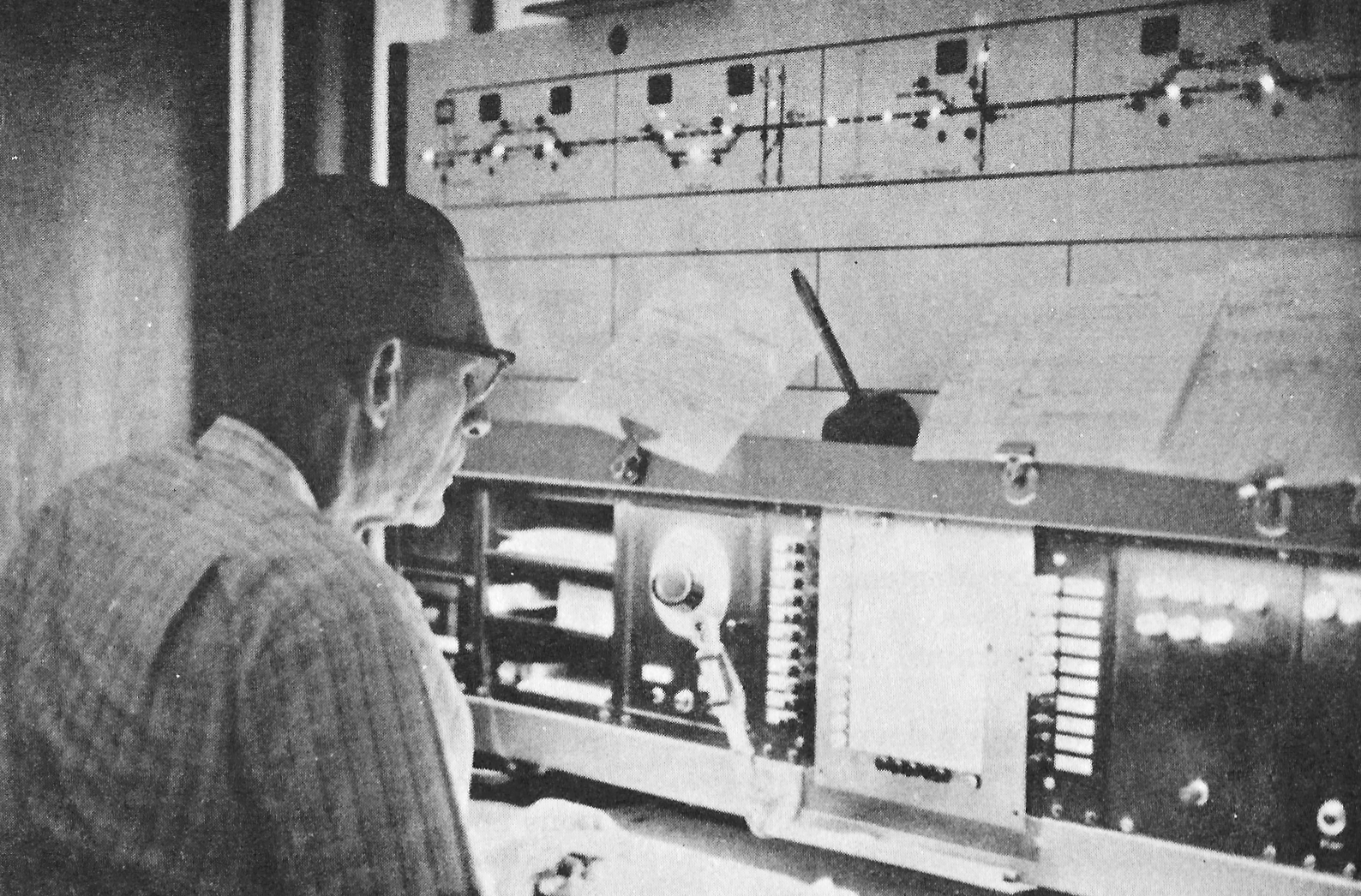 Penn Central Southern Region (Columbus Division) Train Dispatcher Pearl West (41 years of railroad service) controls movement of about 25 fast-moving trains a day at the "B" board in Columbus, Ohio. This board controls the southern and western branches on the division.